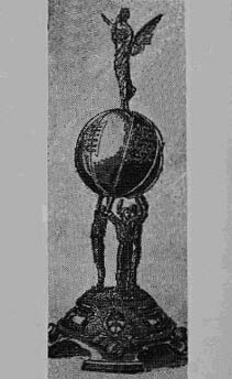 Copa Lipton, a trophy disputed by Argentina and Uruguay national football teams, established in 1905.